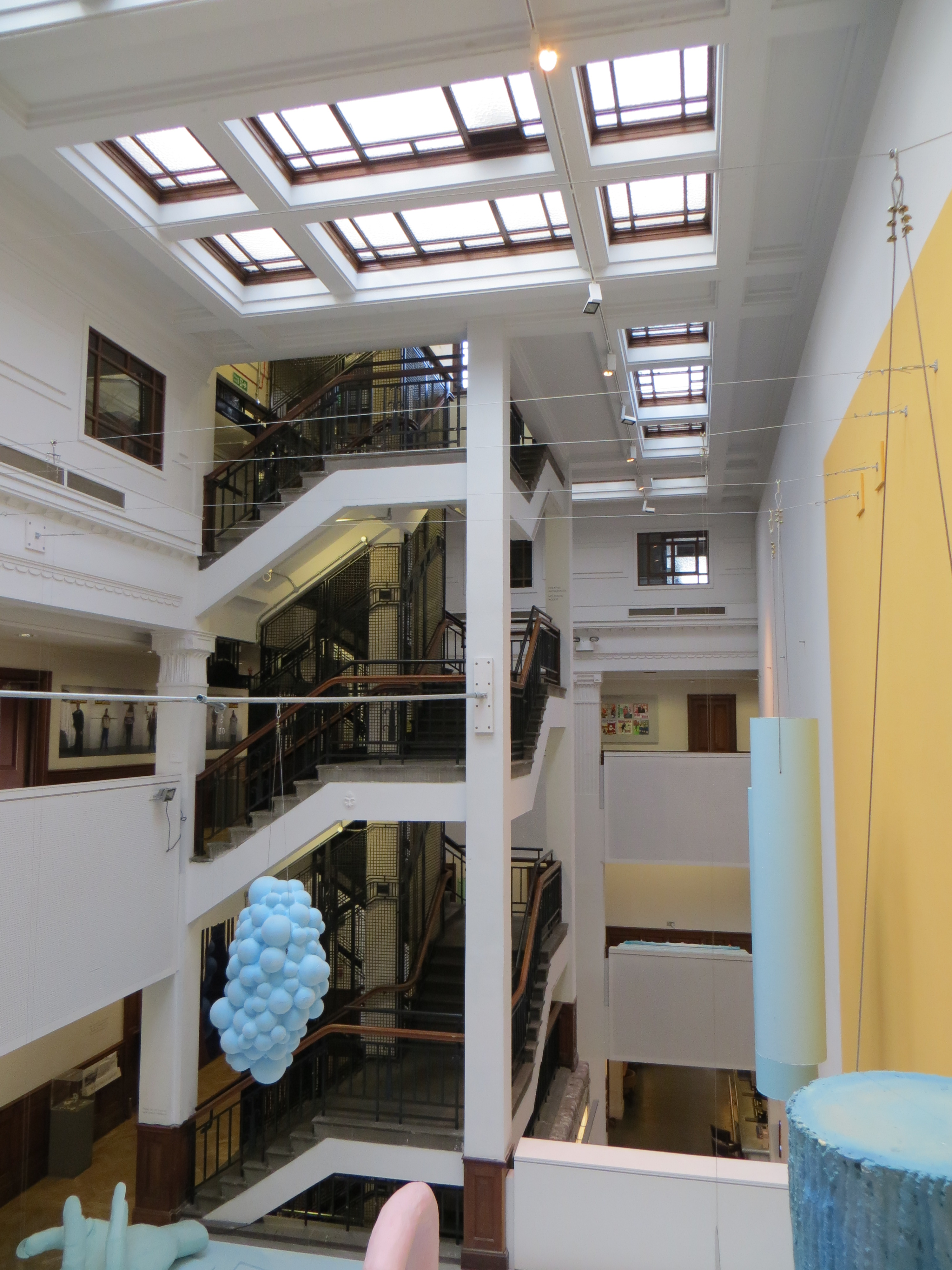 Interior of the Tetley, Leeds. Former brewery offices, now art gallery. Showing art deco style architecture, staircase and roof lights.